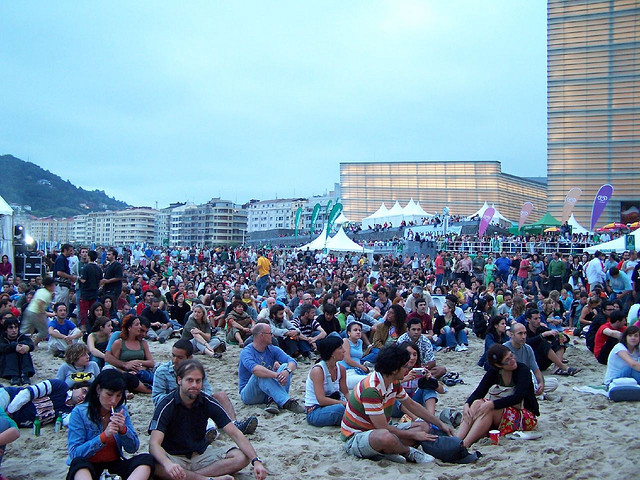 People in Kursaal and Zurriola beach attending Donostia Jazz Festival.